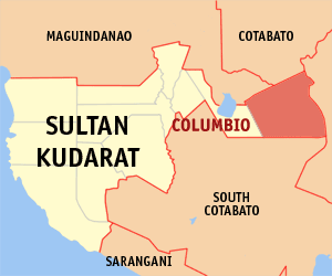 Map of the Sultan Kudarat showing the location of Columbio